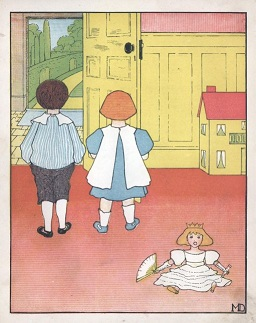 Image for "The Doll that Came Straight from Fairyland"